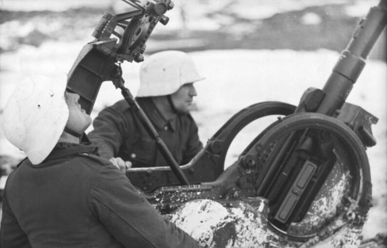 Information added by Wikimedia users.